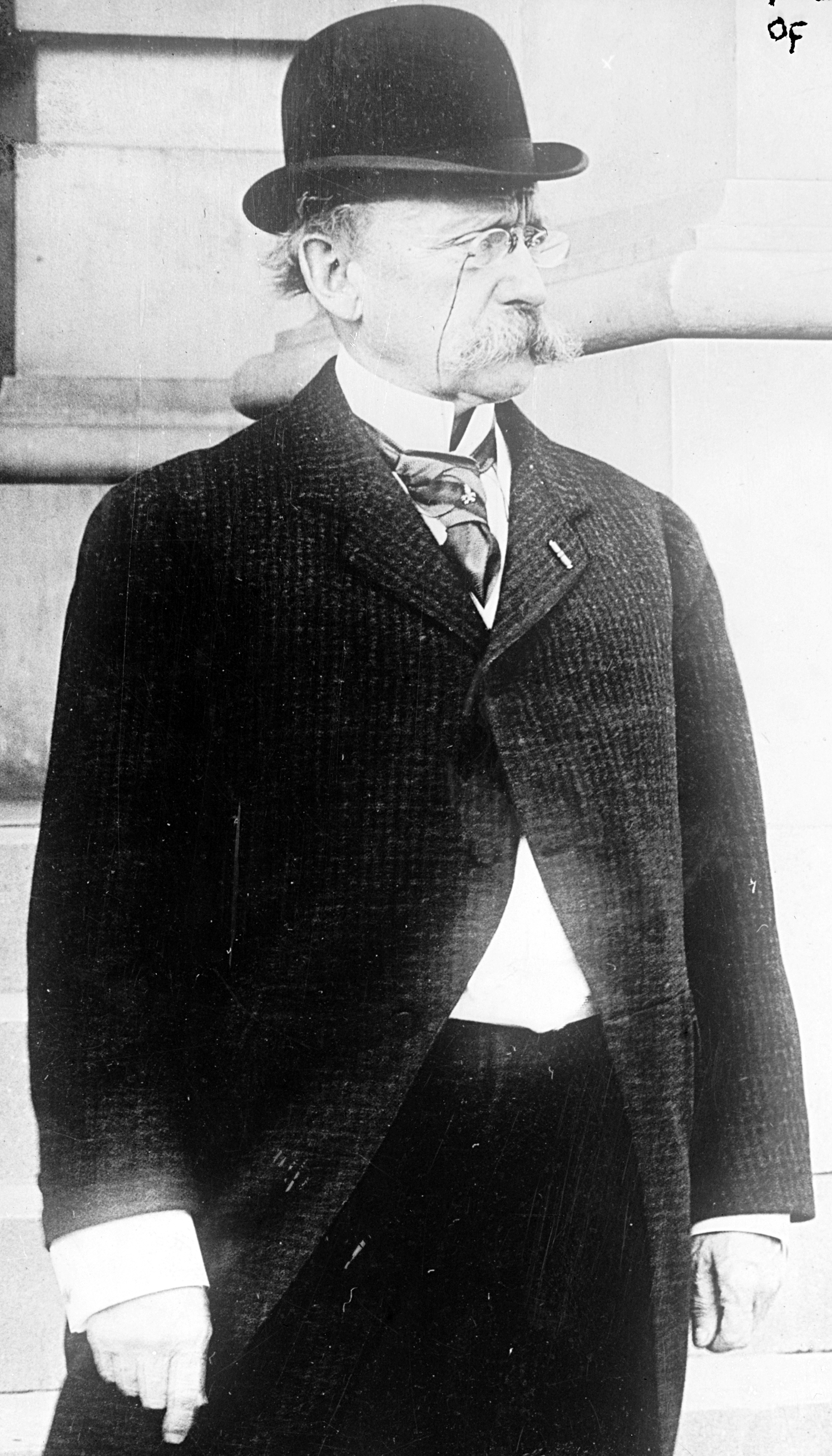 Henry H. Bingham, US Representative from Pennsylvania